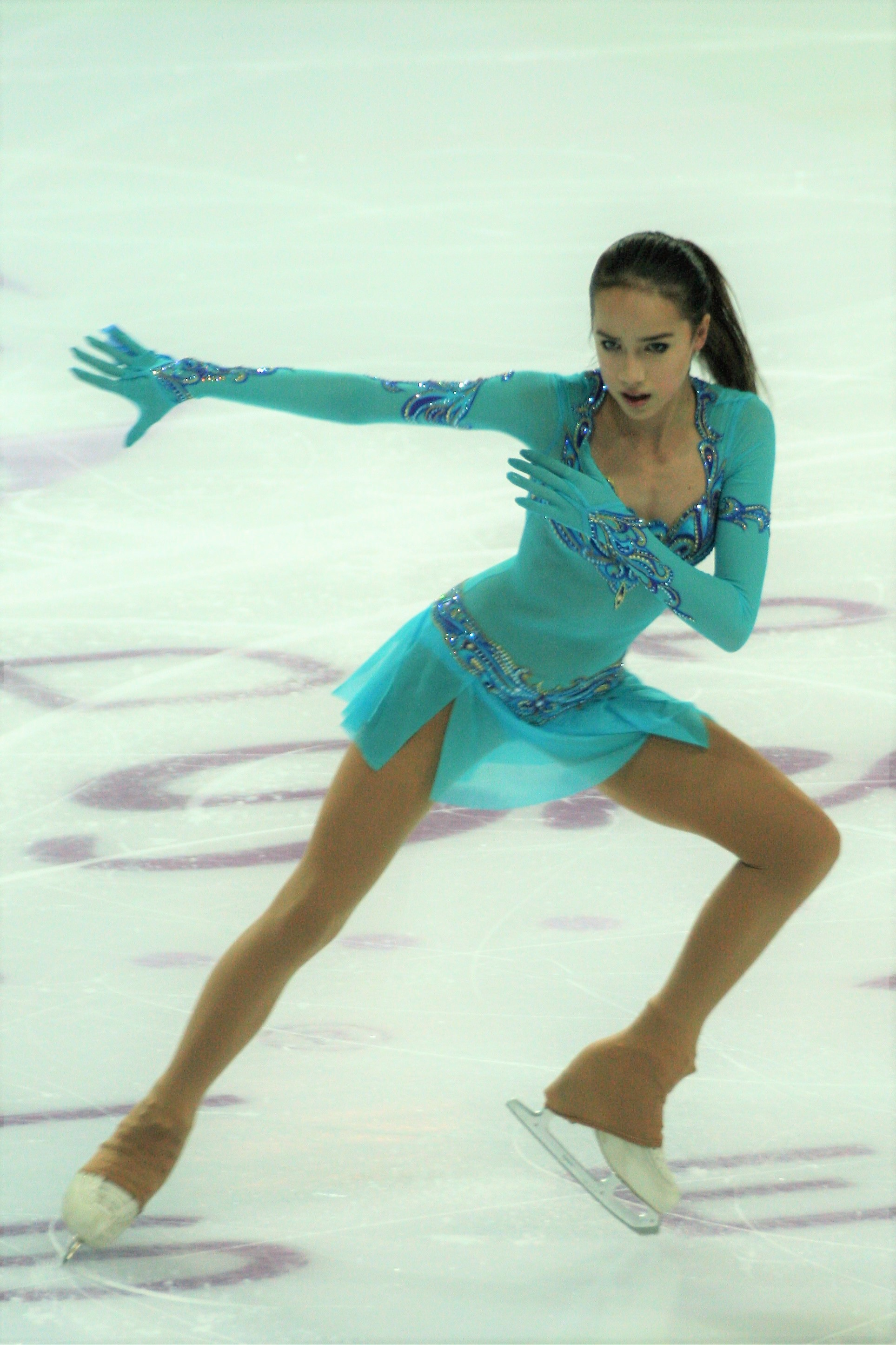 Alina Zagitova at the Junior Grand Prix Final 2016 - Short program